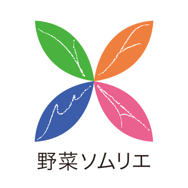 vegelogo